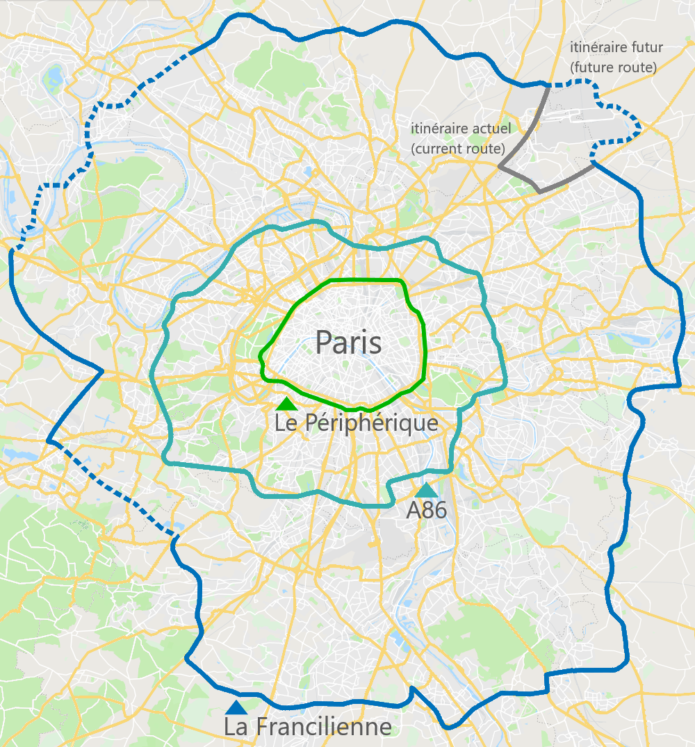 The three main roads enclosing Paris: Le Péripherique (green), A86 (blue-green) and La Francilienne (blue)